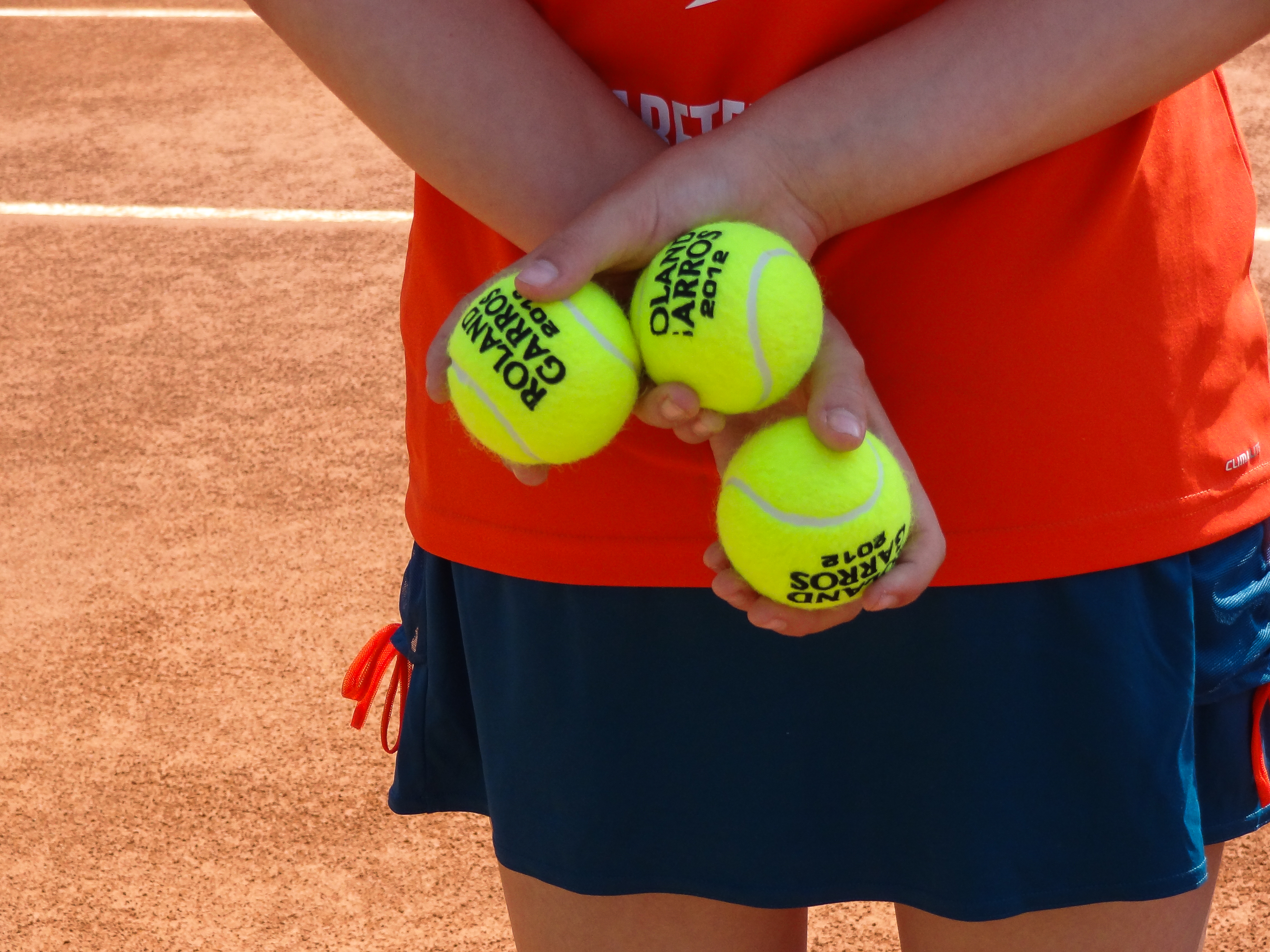 1er tour Roland Garros 2012 : Jeremy Chardy (FRA) def. Yen-Hsun Lu (TPE)